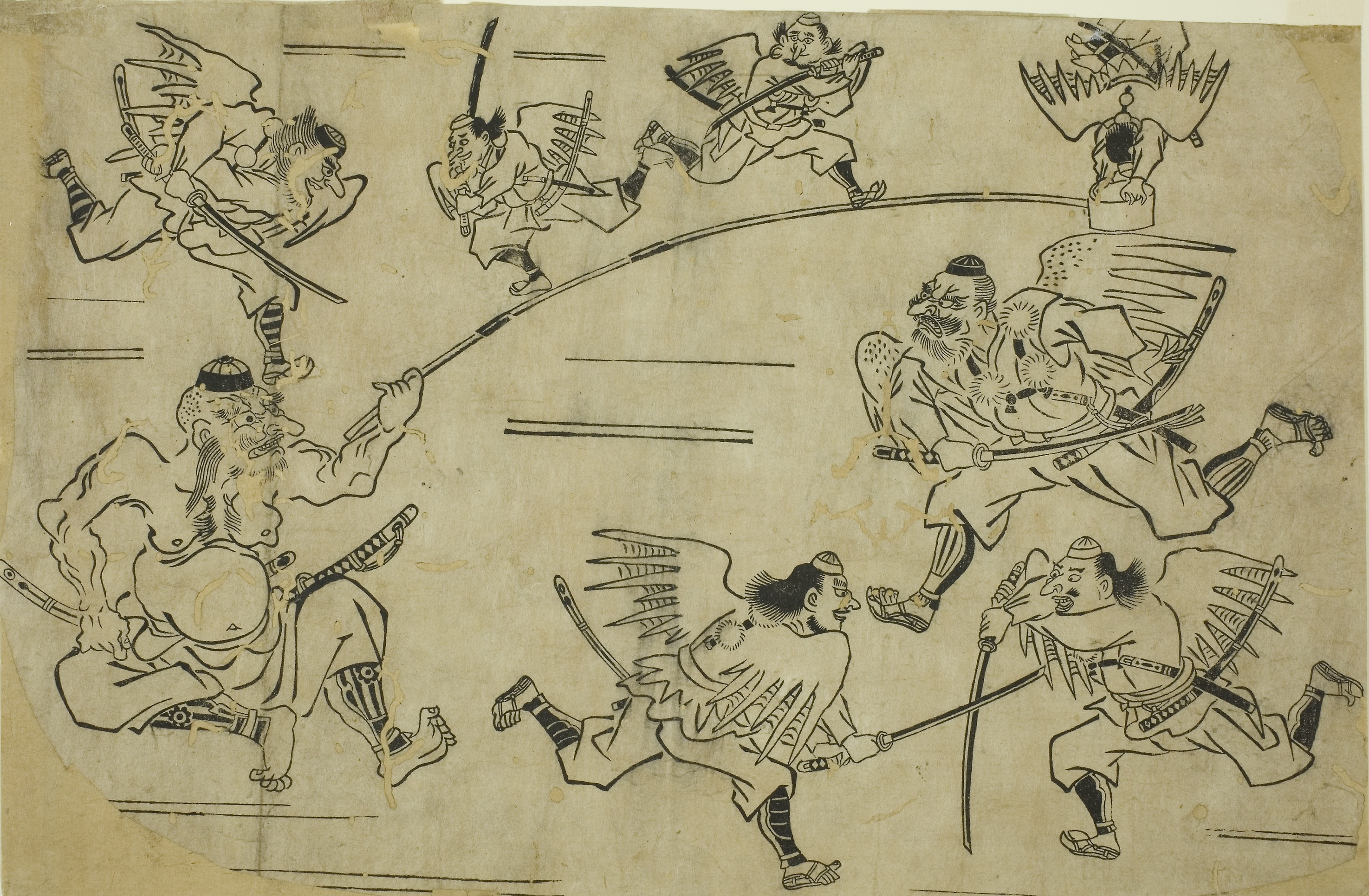 Woodblock print artwork depicting the Tengu King training several tengu.